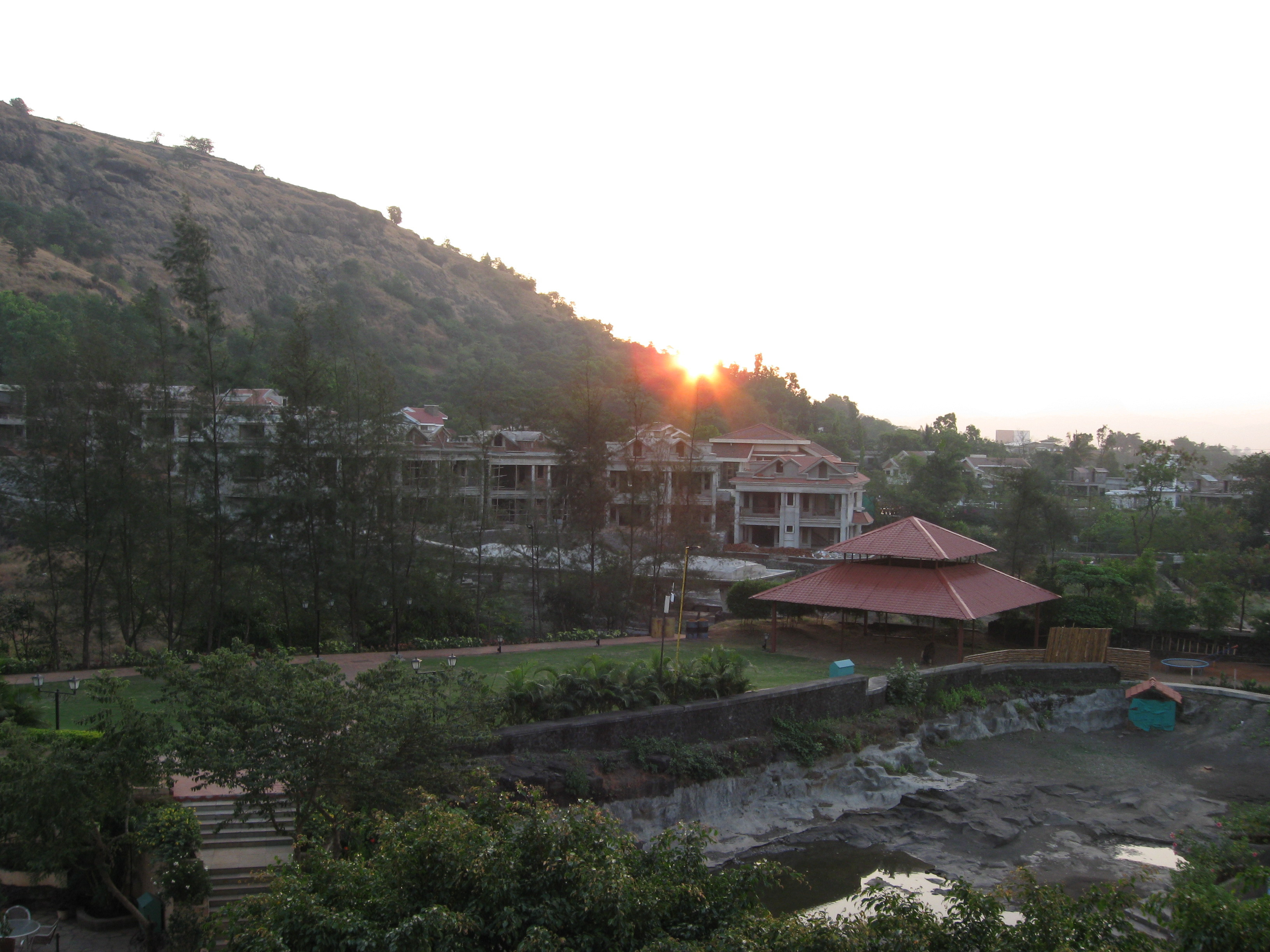 Mumbai, Lonavala